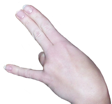 Example of a shocker. Personal photo, donated to public domain.